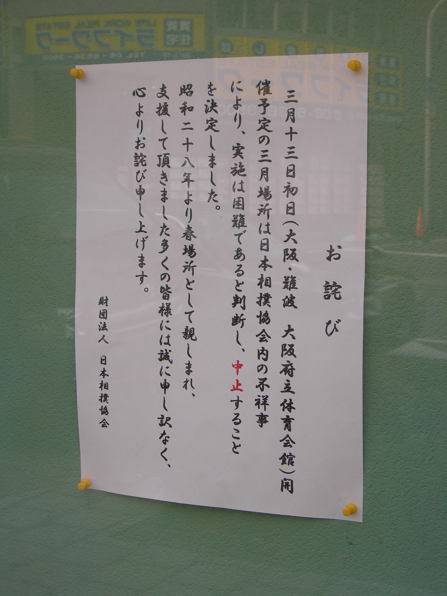 According to the announcement of the discontinuation Haru Basho Match-fixing in professional sumo